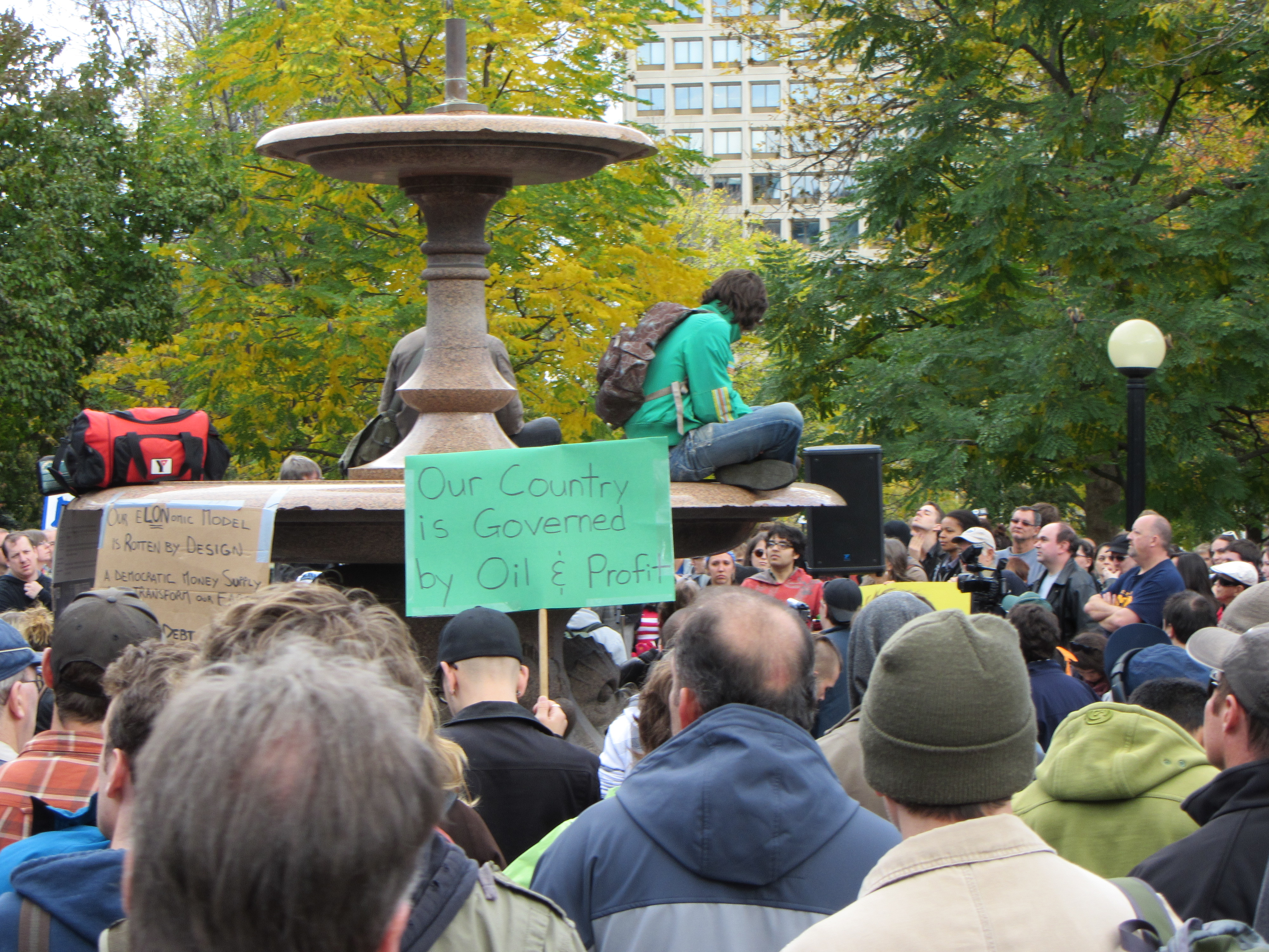 The central fountain proved a good gathering point. Glad they'd turned off the water...